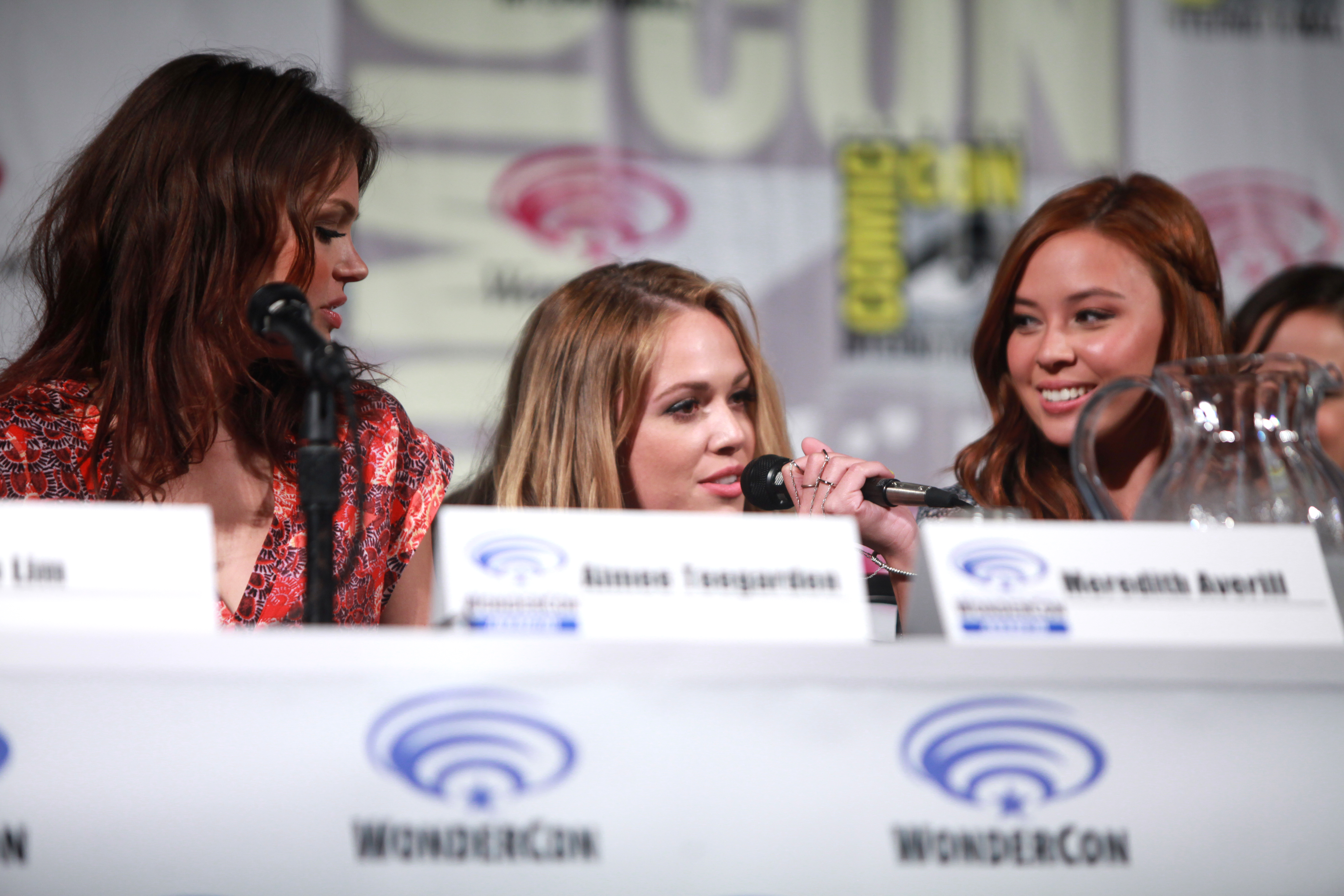 Aimee Teegarden, Natalie Hall and Malese Jow speaking at the 2014 WonderCon, for Star-Crossed, at the Anaheim Convention Center in Anaheim, California.